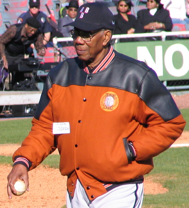 Willie Mays, Birmingham mayor Bernard Kincaid and Bill Greason (left to right) at Rickwood Field in Birmingham, Alabama in 2006